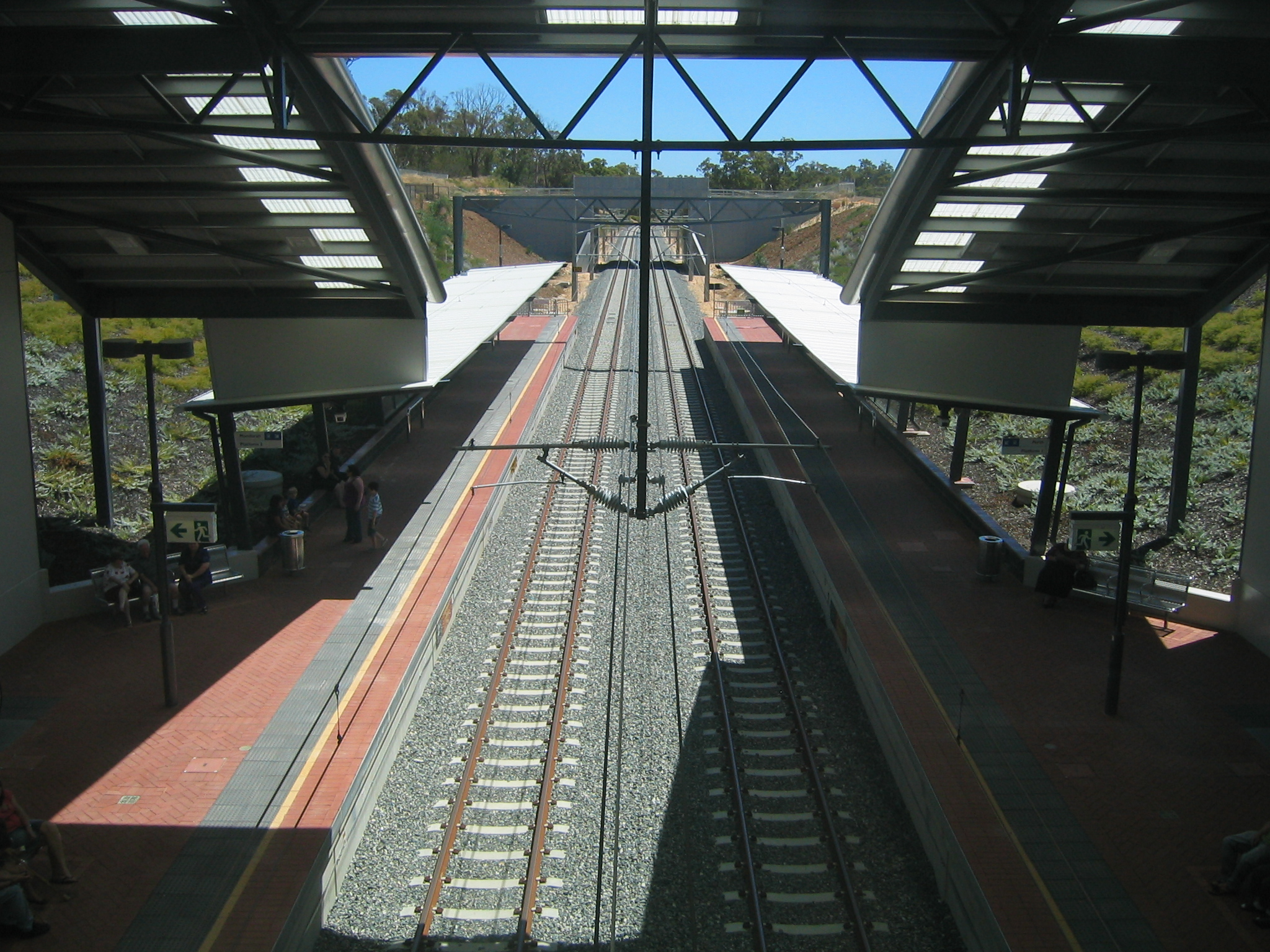 The platform level of Wellard Station, taken from the concourse level of its station.